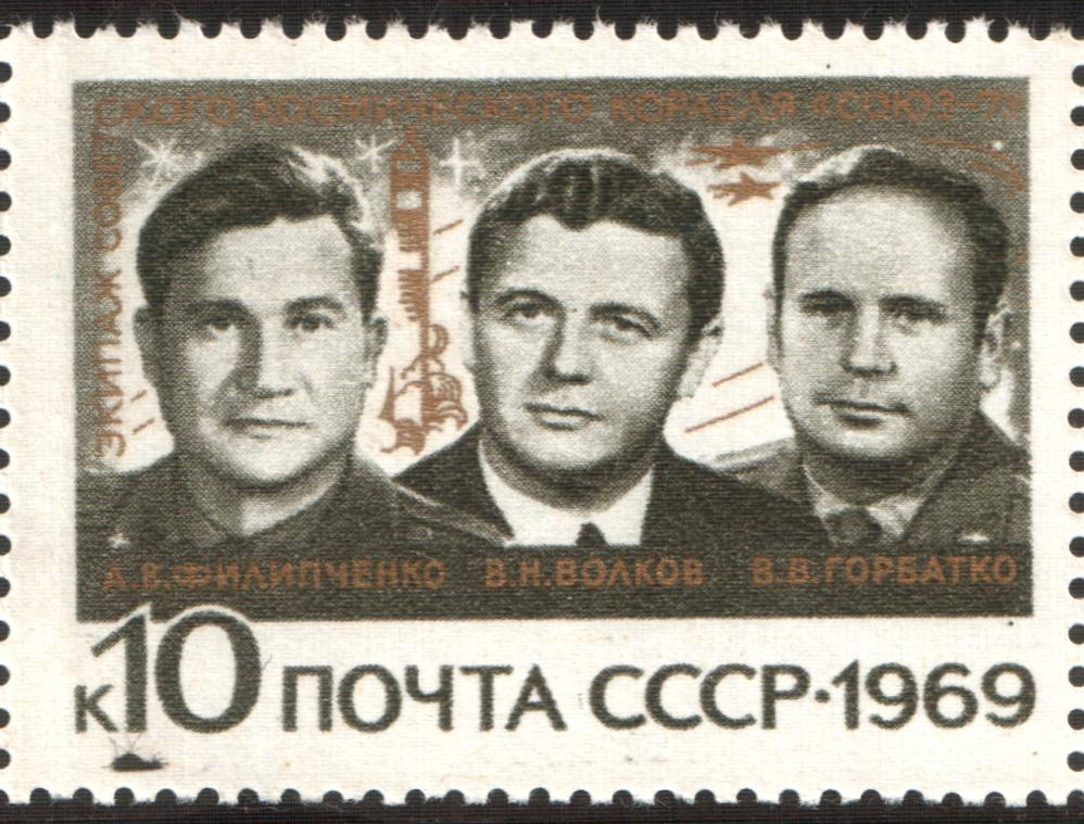 USSR stampː Anatoly Filipchenko, Vladislav Volkov and Viktor Gorbatko (Soyuz 7). Seriesː Triple Space Flights the Space Ships Soyuz 6 (11-16.10), Soyuz 7 (12-17.10) and Soyuz 8 (13-18.10)